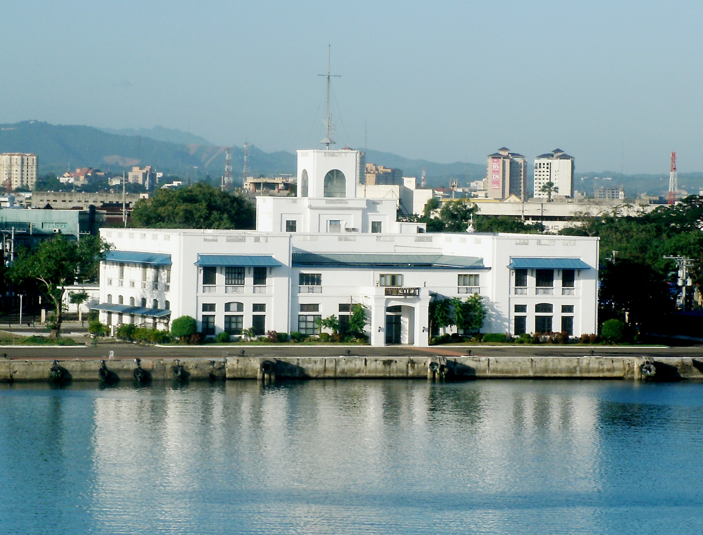 The Malacañang sa Sugbo, the official residence of the President of the Philippines in the Visayas.